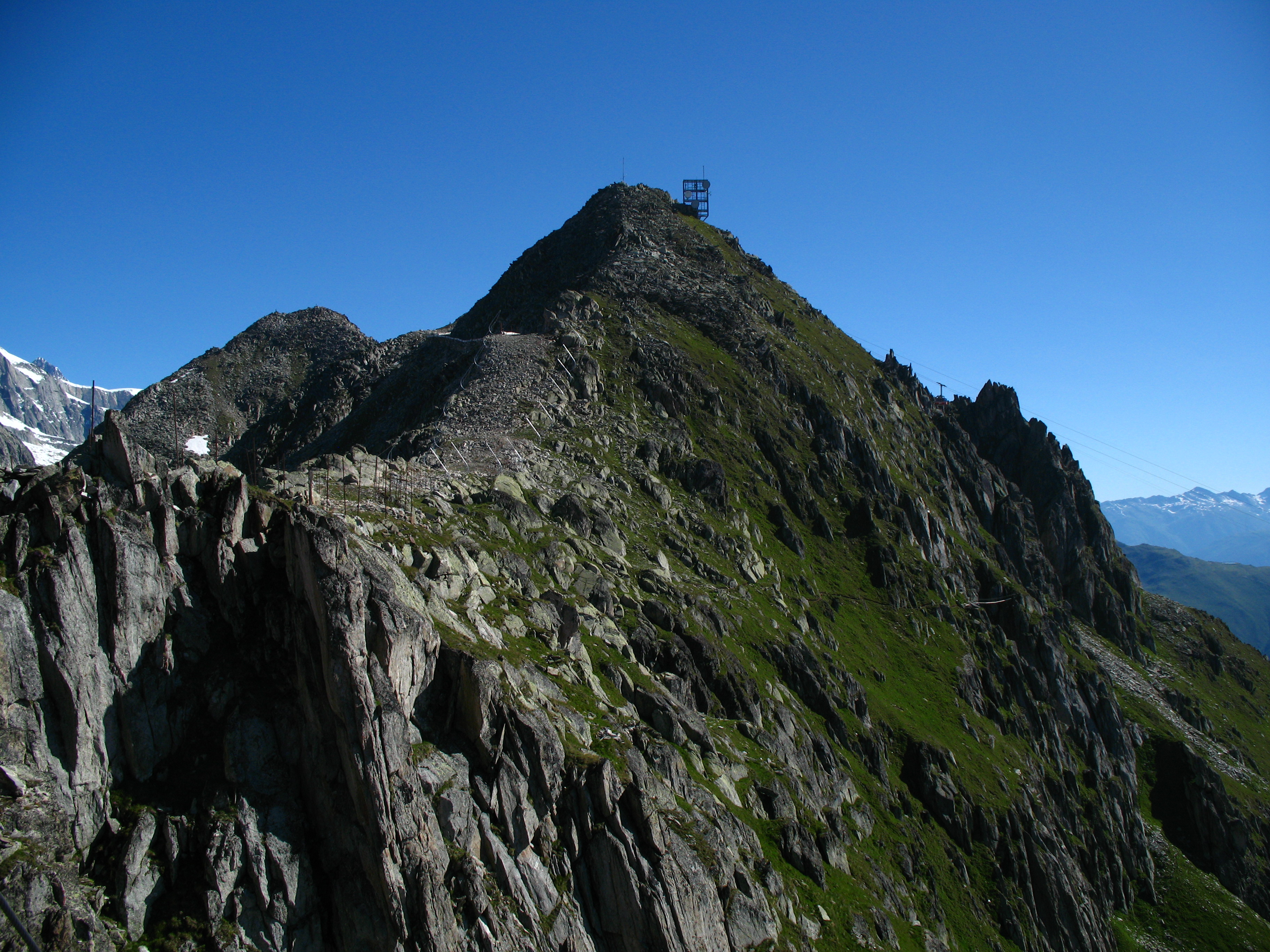 Eggishorn viewed from Bettmerhorn, Fiescheralp, Switzerland